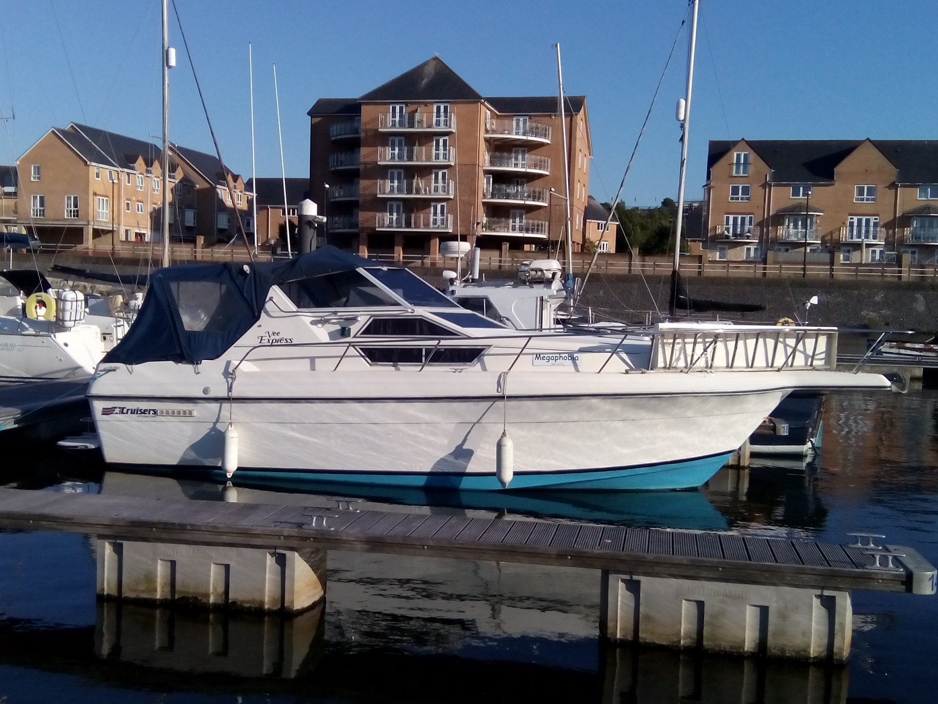 Cruisers International Vee Express 267 --- MV Megaphobia at Cardiff Bay